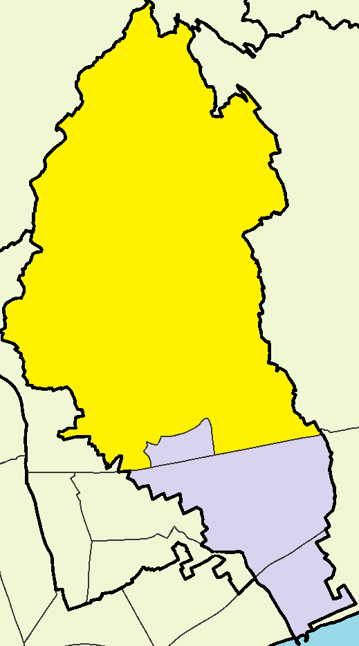 Ayios Athanasios (quarter) in Agios Athanasios Municipality.